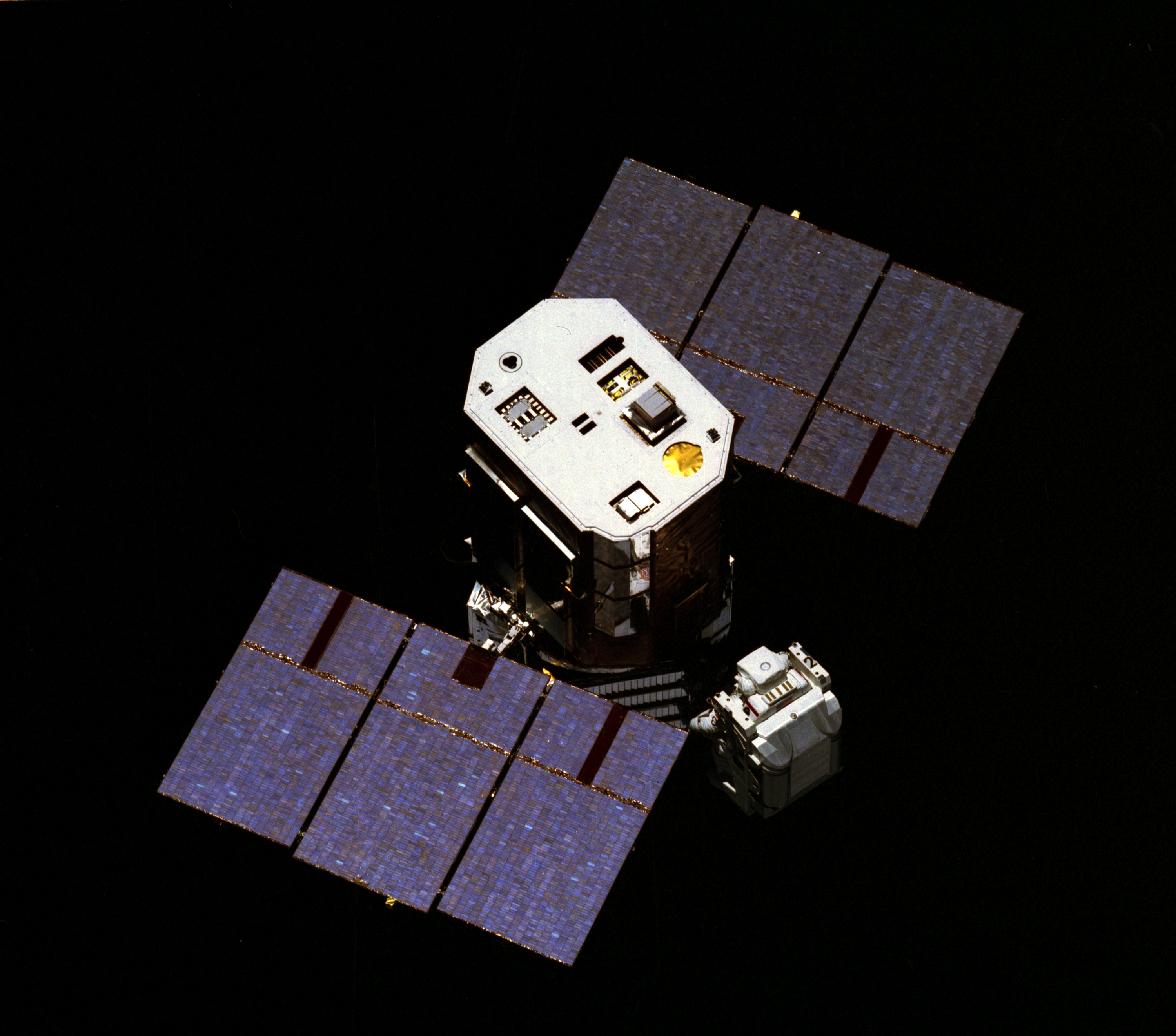 Launched April 6, 1984, one of the goals of the STS-41C mission was to repair the damaged free-flying Solar Maximum Mission Satellite (SMMS), or Solar Max. The original plan was to make an excursion out to the SMMS and capture it for necessary repairs. Pictured is Mission Specialist George Nelson approaching the damaged satellite in a capture attempt. This attempted feat was unsuccessful. It was necessary to capture the satellite via the orbiter's Remote Manipulator System (RMS) and secure it into the cargo bay in order to perform the repairs, which included replacing the altitude control system and the coronograph/polarimeter electronics box. The SMMS was originally launched into space via the Delta Rocket in February 1980, with the purpose to provide a means of studying solar flares during the most active part of the current sunspot cycle. Dr. Einar Tandberg-Hanssen of Marshall Space Flight Center's Space Sciences Lab was principal investigator for the Ultraviolet Spectrometer and Polarimeter, one of the seven experiments of the Solar Max.